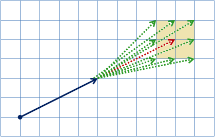 9 possible movements in racetrack game